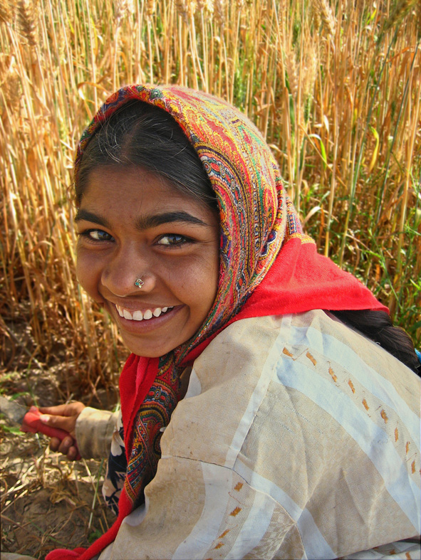 A woman of the Ahir tribe harvesting wheat in Nadapa, east of Bhuj, Kutch District, Gujarat, India.